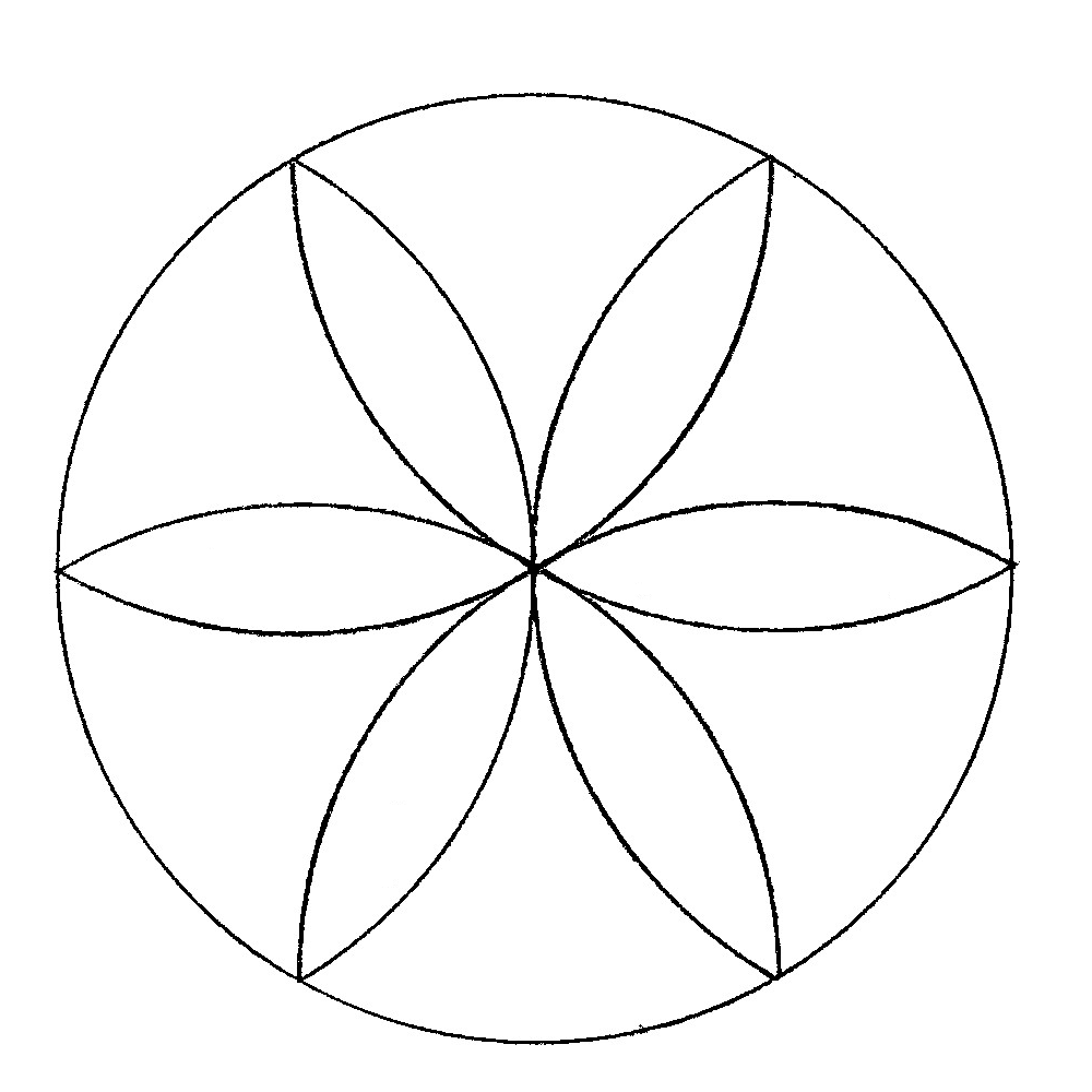 This is a hexafoil made using the vesica piscis method.